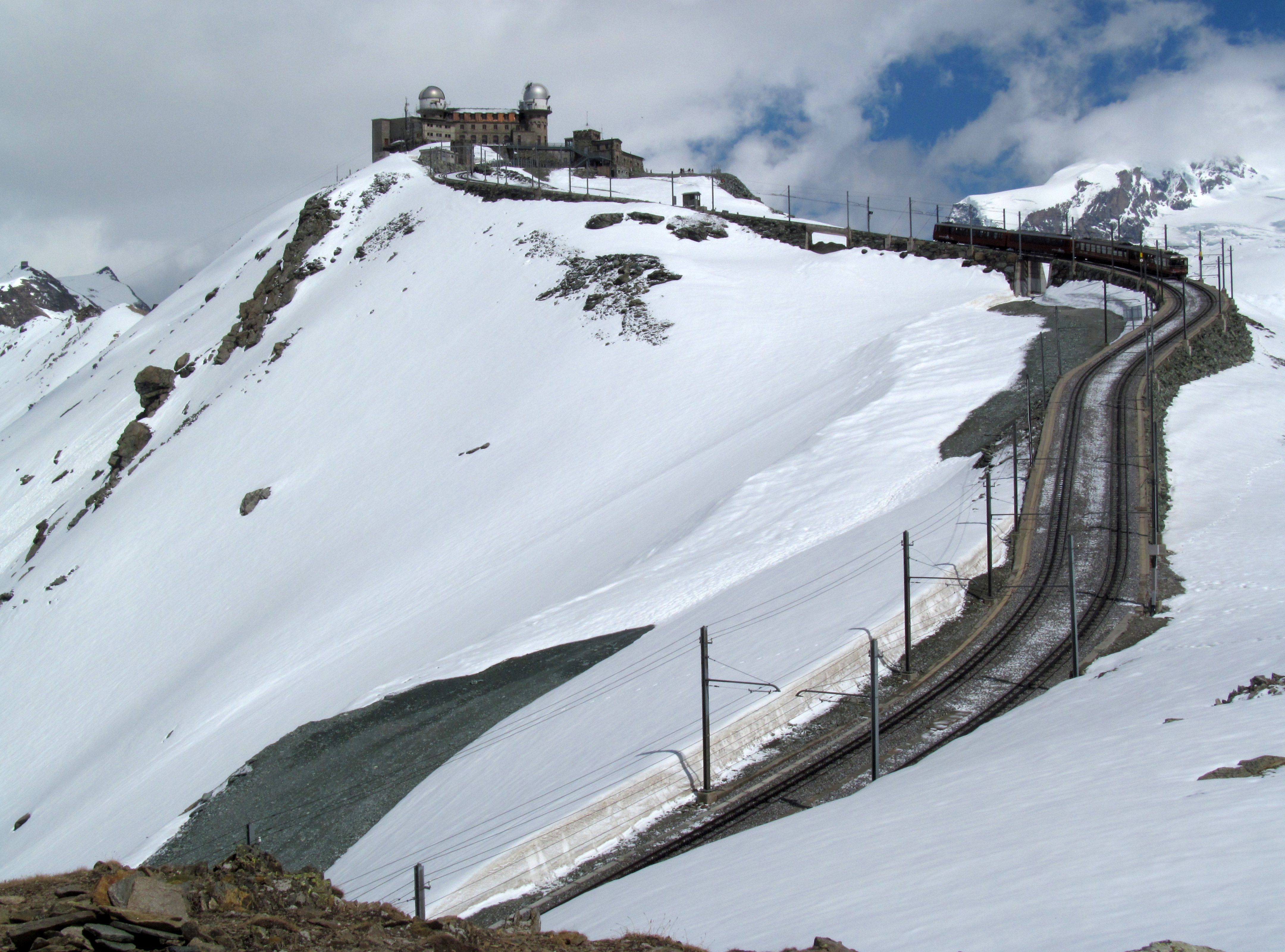 Gornergrat railway, showing a train approaching Gornergrat railway station